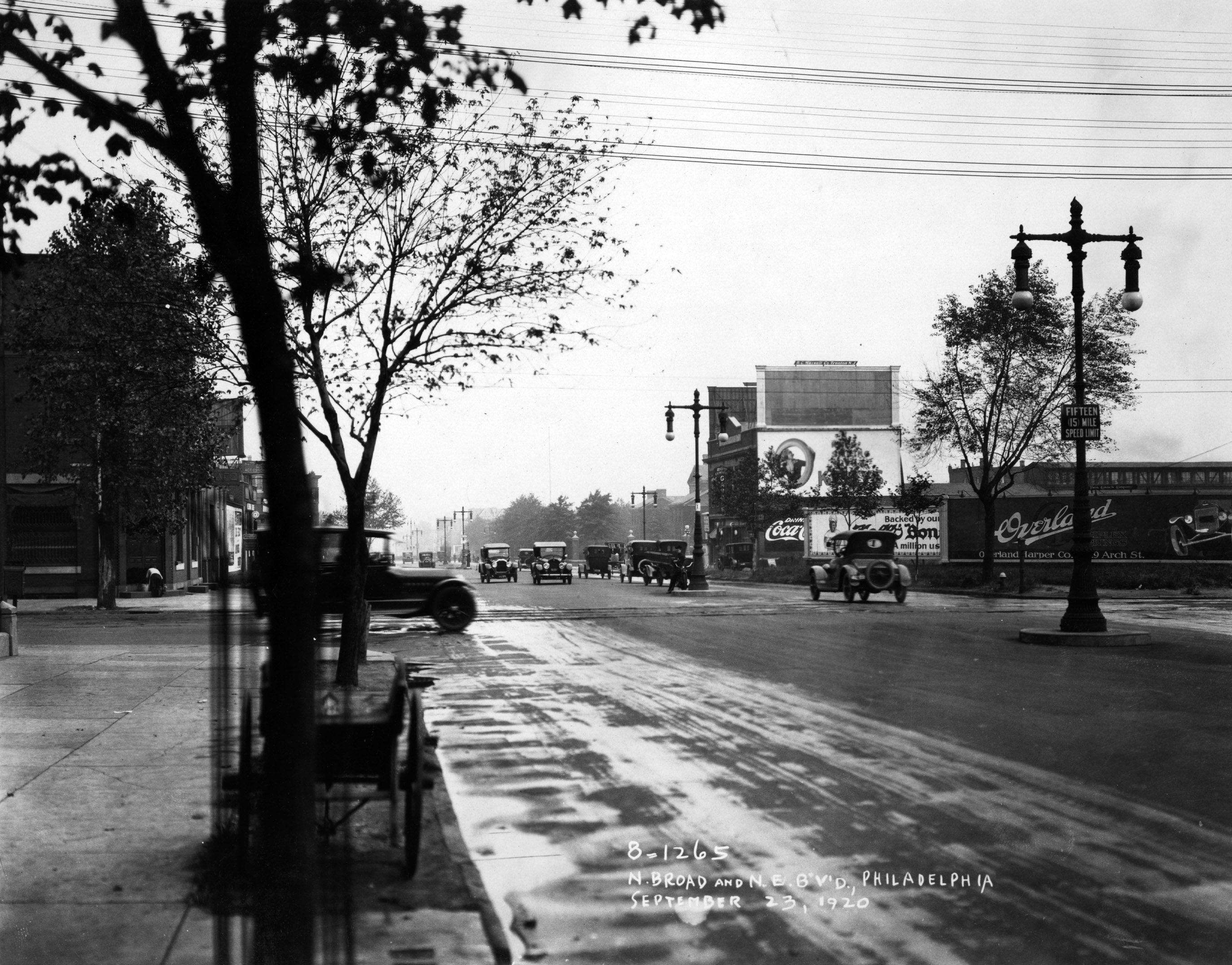 Photograph near the intersection of Broad Street and Northeast Boulevard in Philadelphia. Note the speed limit and Lincoln Highway signs